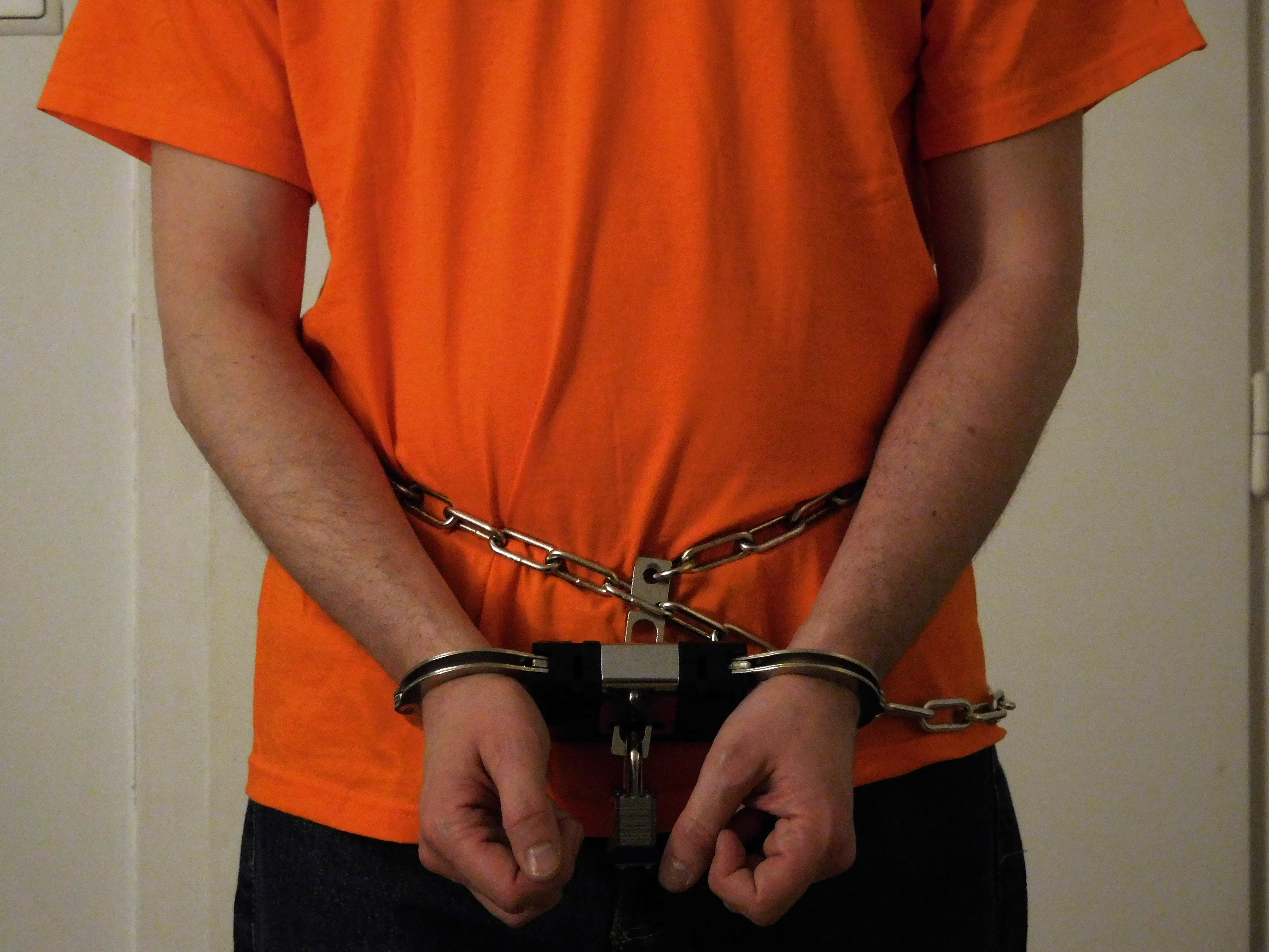 prisoner wearing hancuffs with a "blue box" security cover, secured with a chain around his waist and a padlock